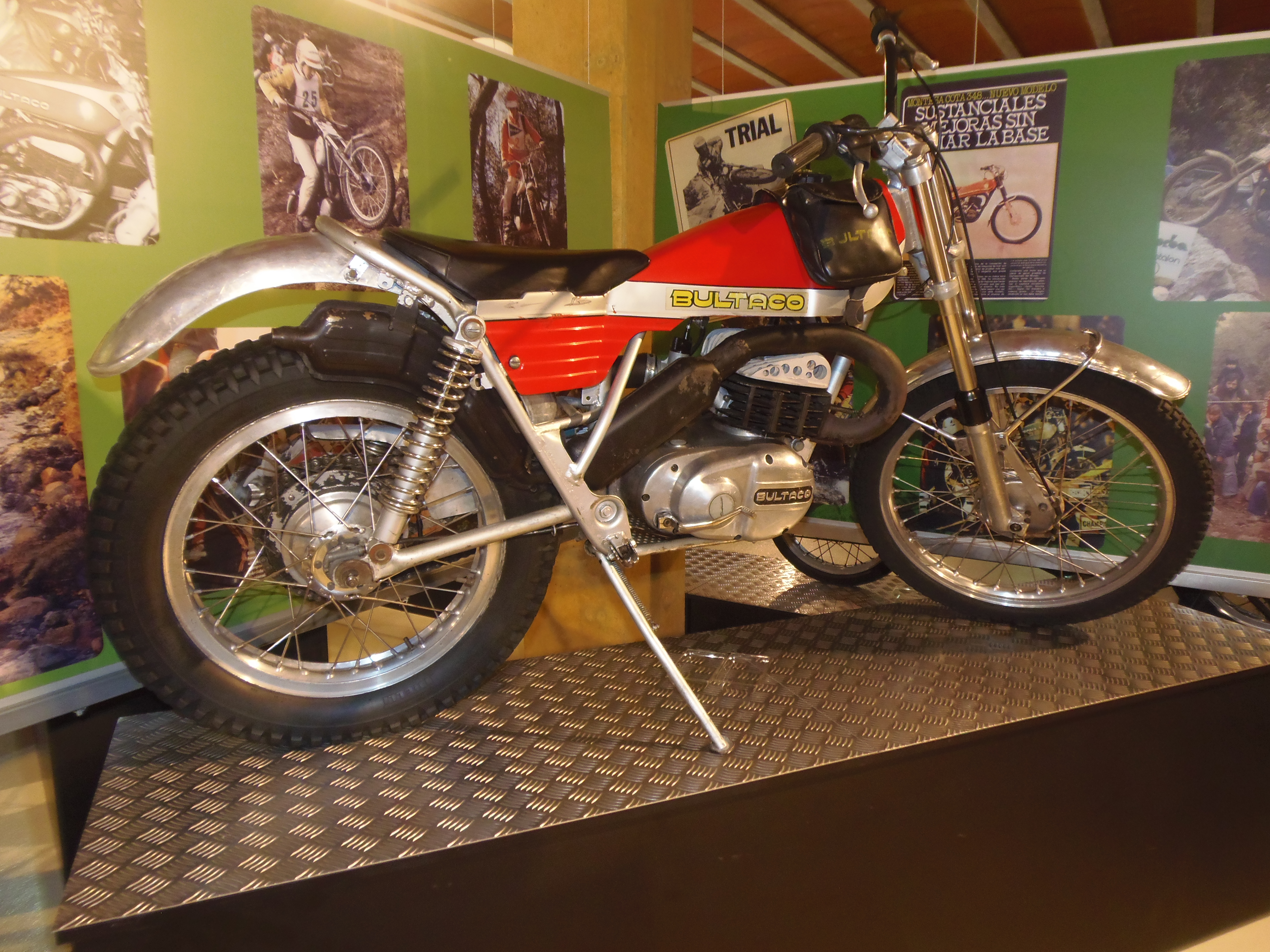 Bultaco Sherpa T 250 prototype, developed and ridden by Ignasi Bultó during 1972